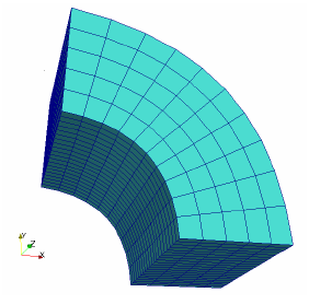 sample mapped mesh